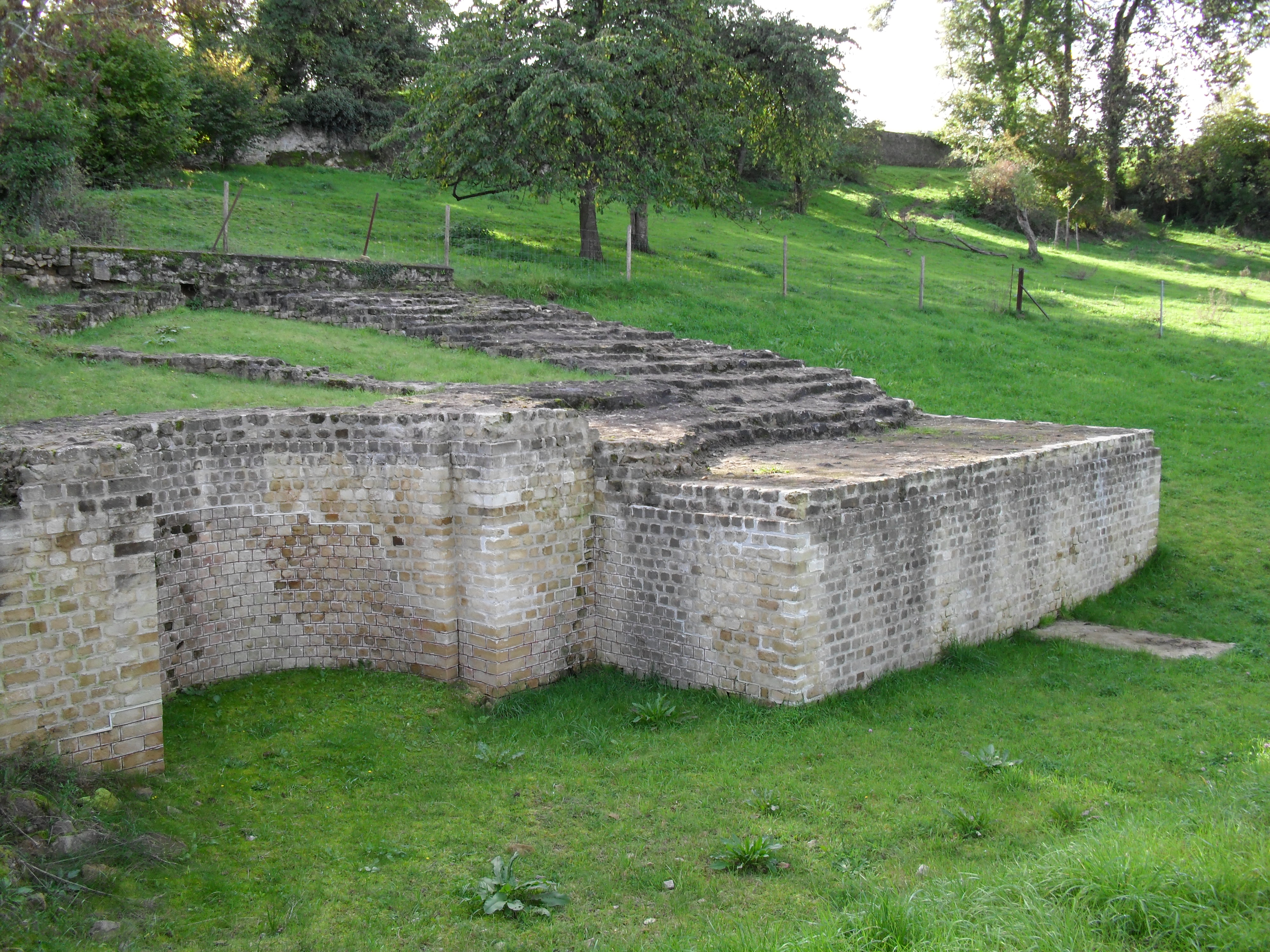 Ancient Roman theatre in Dalheim, Luxembourg